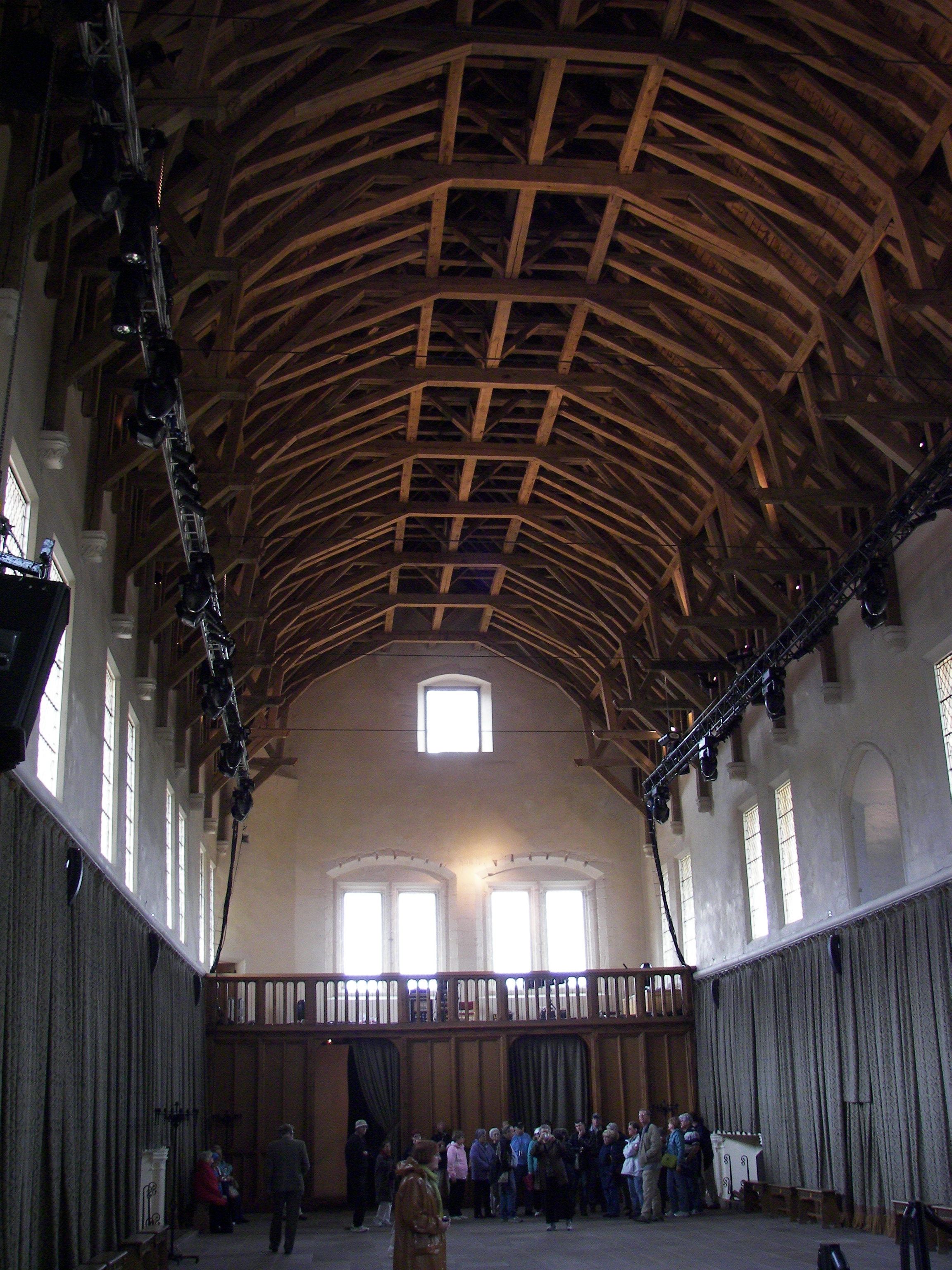 Ceiling of the Great Hall at Stirling Castle, Scotland